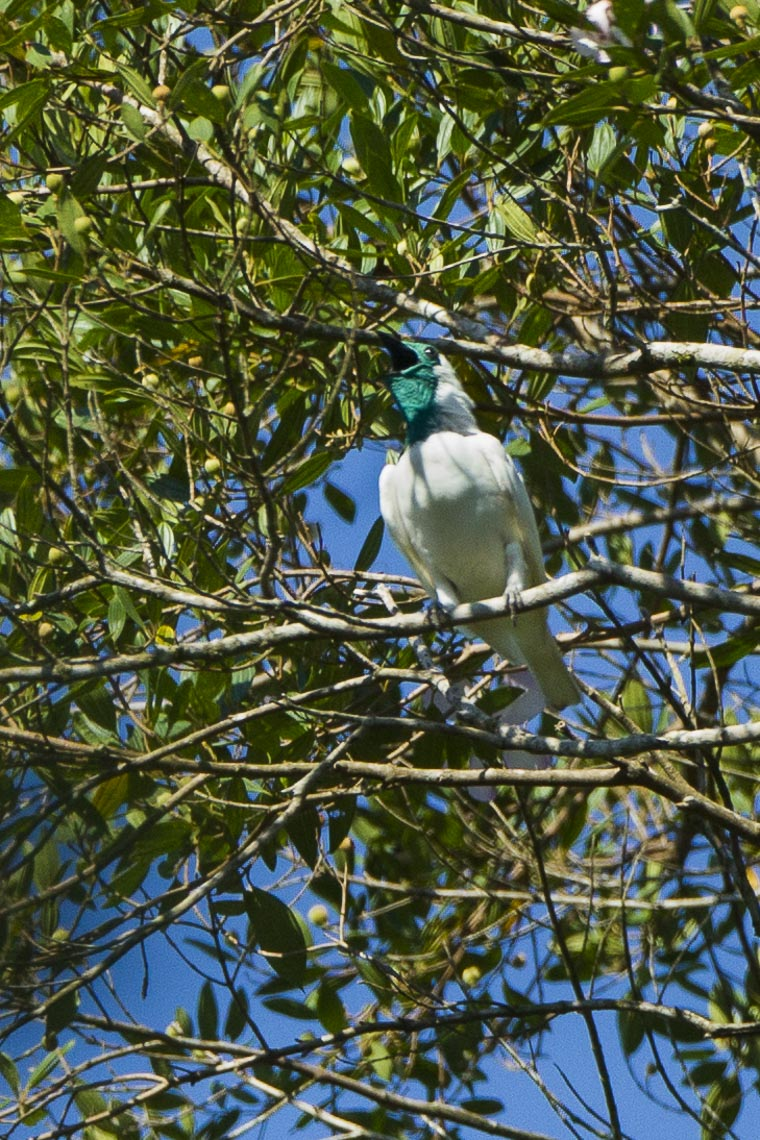 Bare-throated Bellbird - Intervales - Brazil_S4E0455